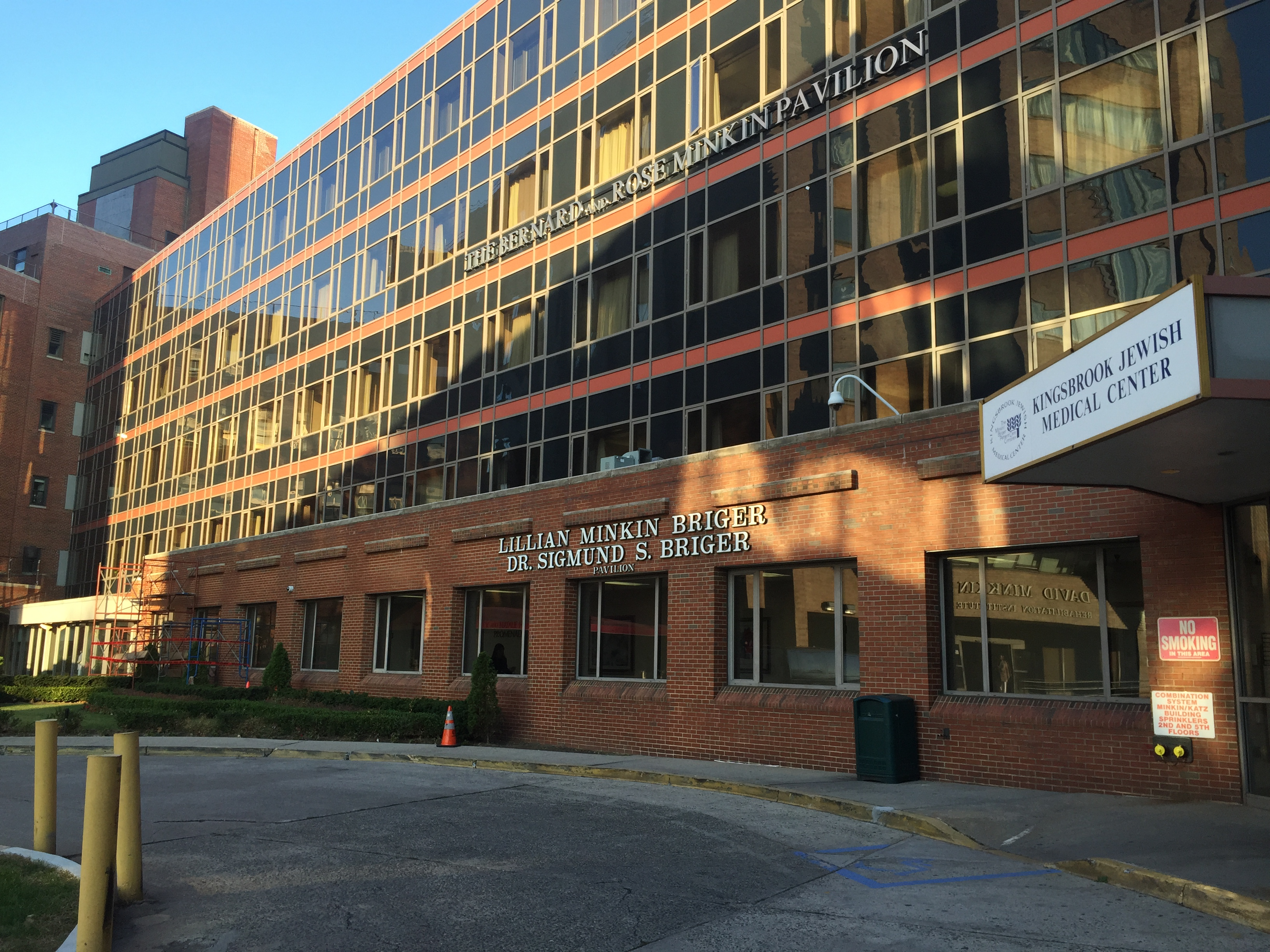 Present day photograph of the Bernard and Rose Minkin Pavilion